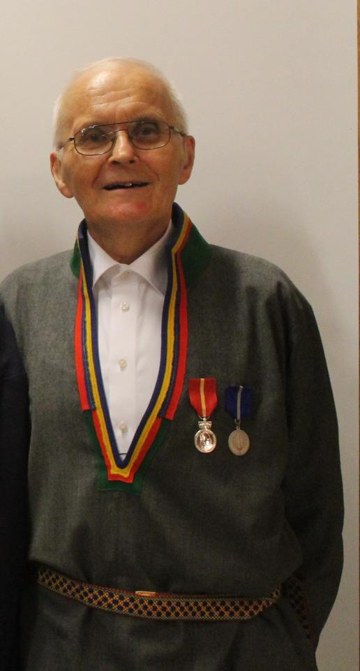 Norwegian-sami teacher and linguist Mikal Urheim (born 1932), while receiving Kongens fortjenstmedalje 18. january 2013